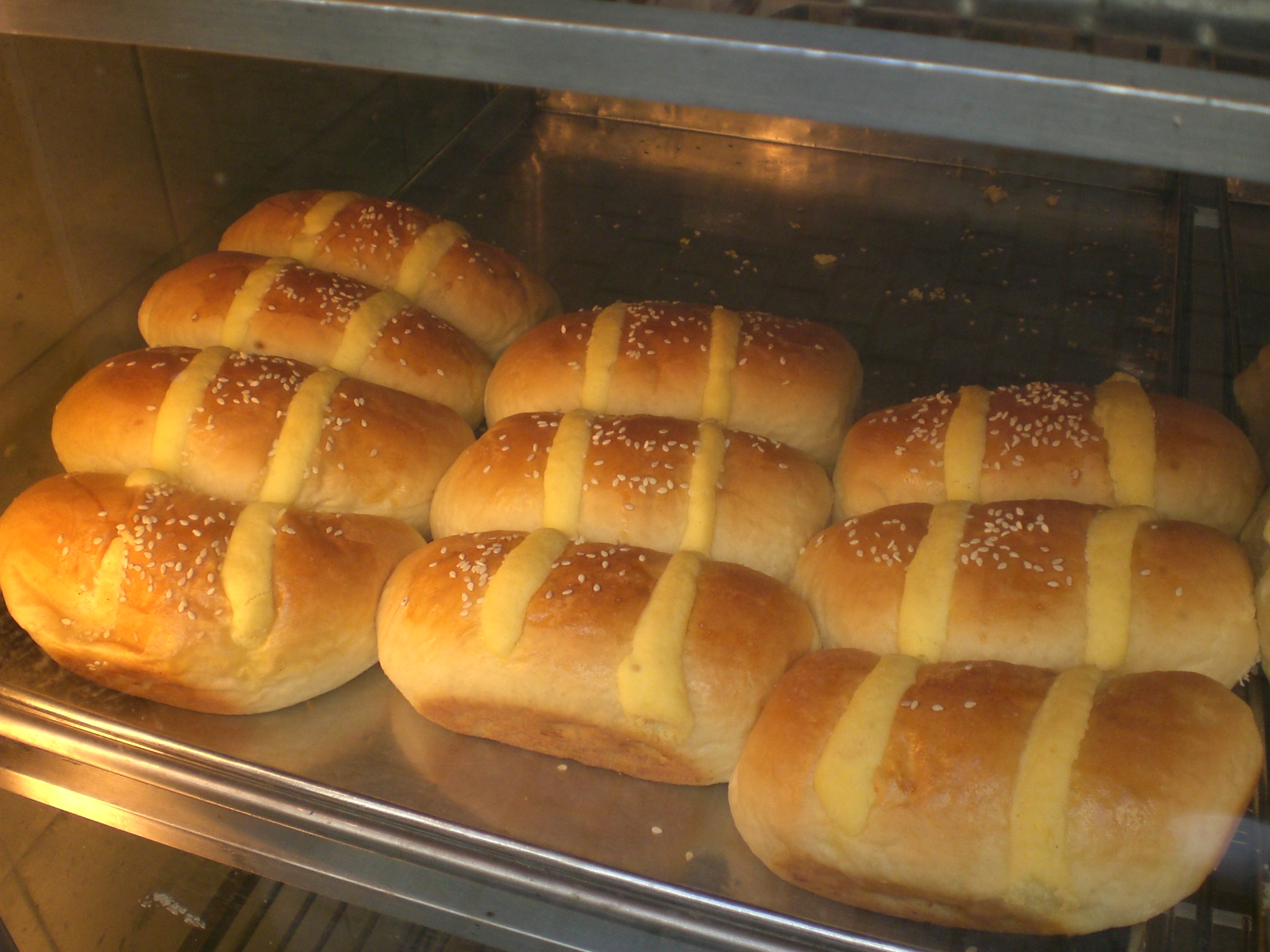 灣仔軒尼詩道zh:檀島咖啡餅店 - 雞尾包